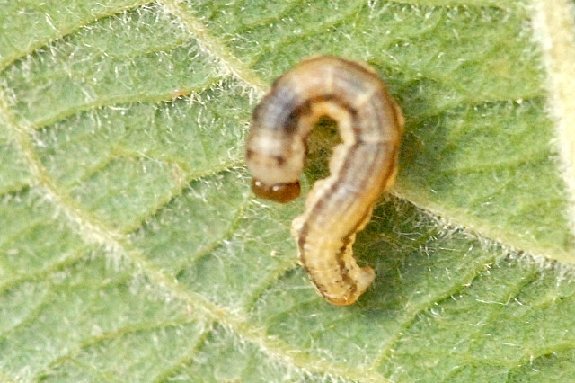 Macaria notata from Commanster, Belgian High Ardennes .